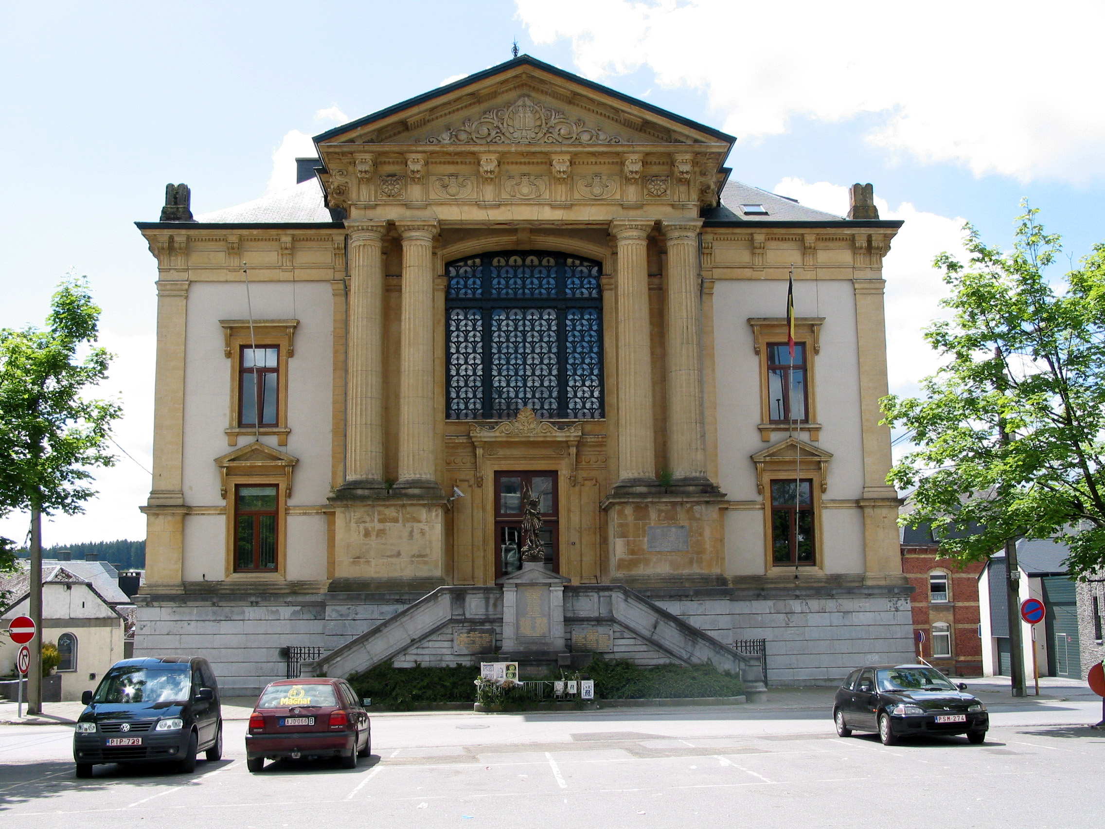 Neufchâteau (Belgium), the Courthouse.